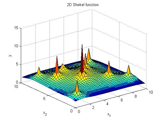 I created this file with a matlab script. Just create a 10x2 matrix of a (aij in the formula) and a 10x1 matrix of c (ci in the formula), grid the space (use some arbitrary girdding of x1 and x2) and use surf (x1, x2, y) to get the plot. Sarvagna 19:19, 17 October 2005 (UTC)